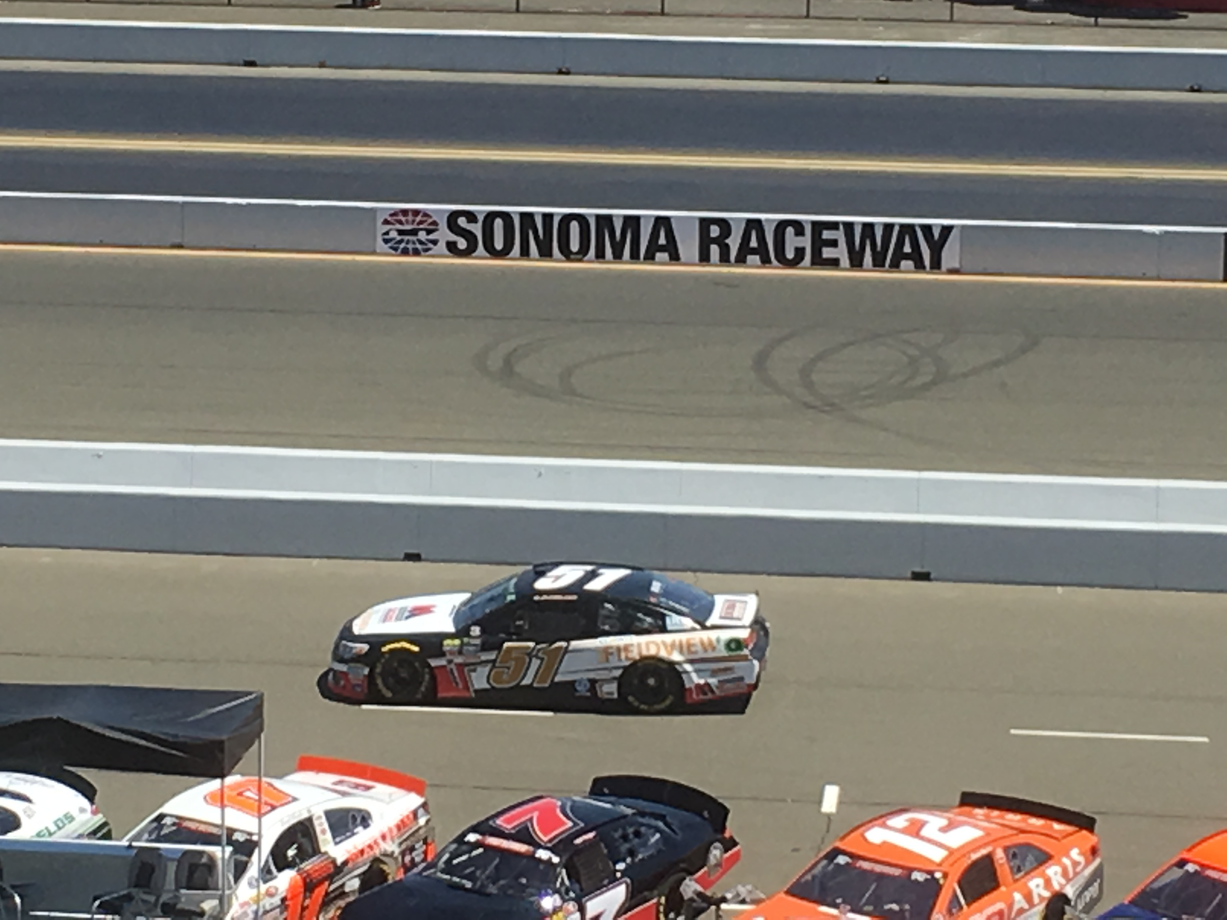 Josh Bilicki during qualifying for the 2017 Toyota/Save Mart 350.